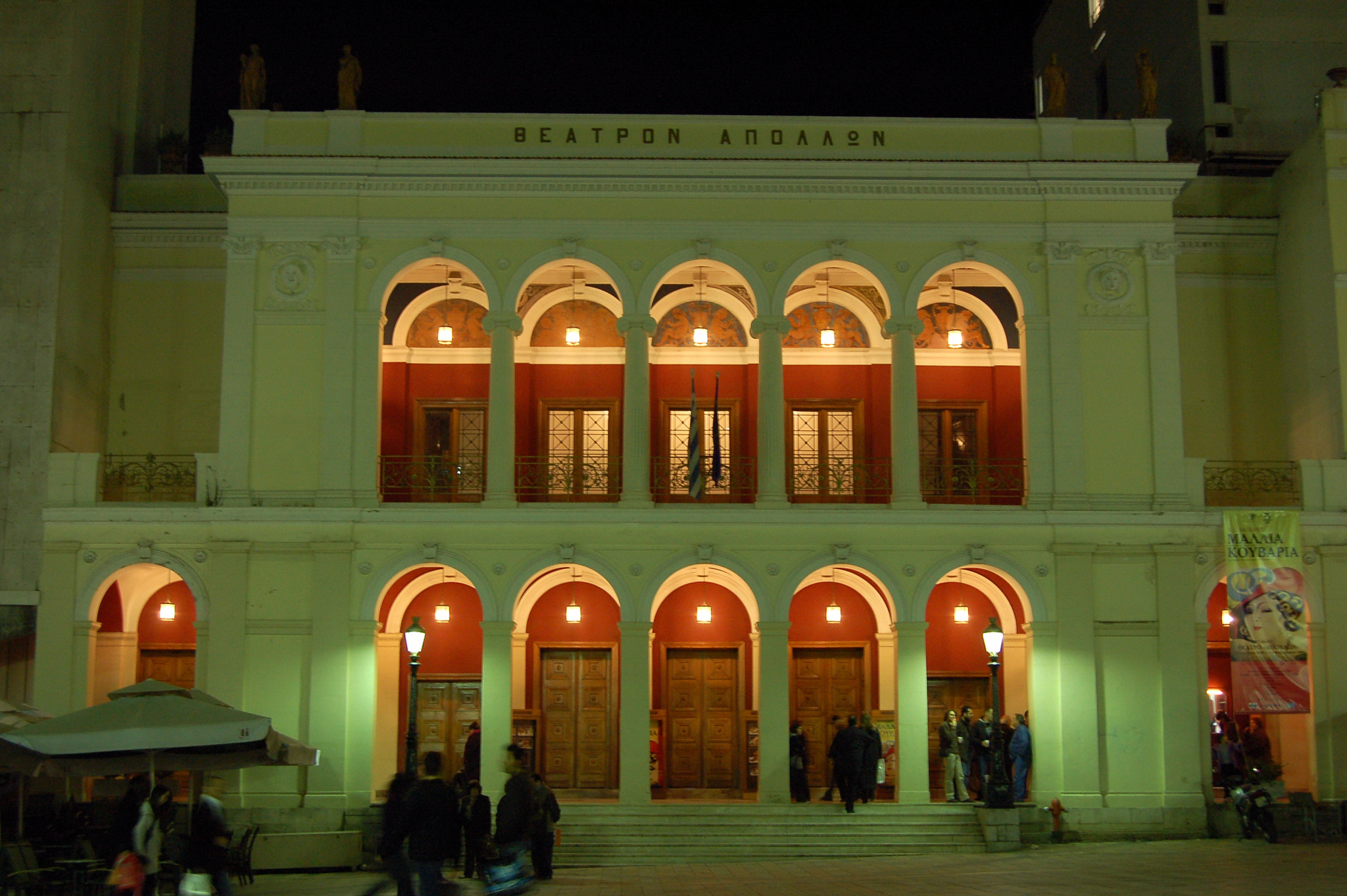 Patras, theatre Apollo